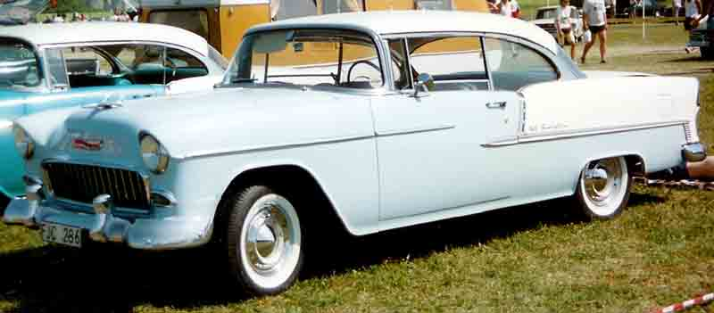 1955 Chevrolet Bel Air Series 2400C, Model 2454 Sport Coupe.